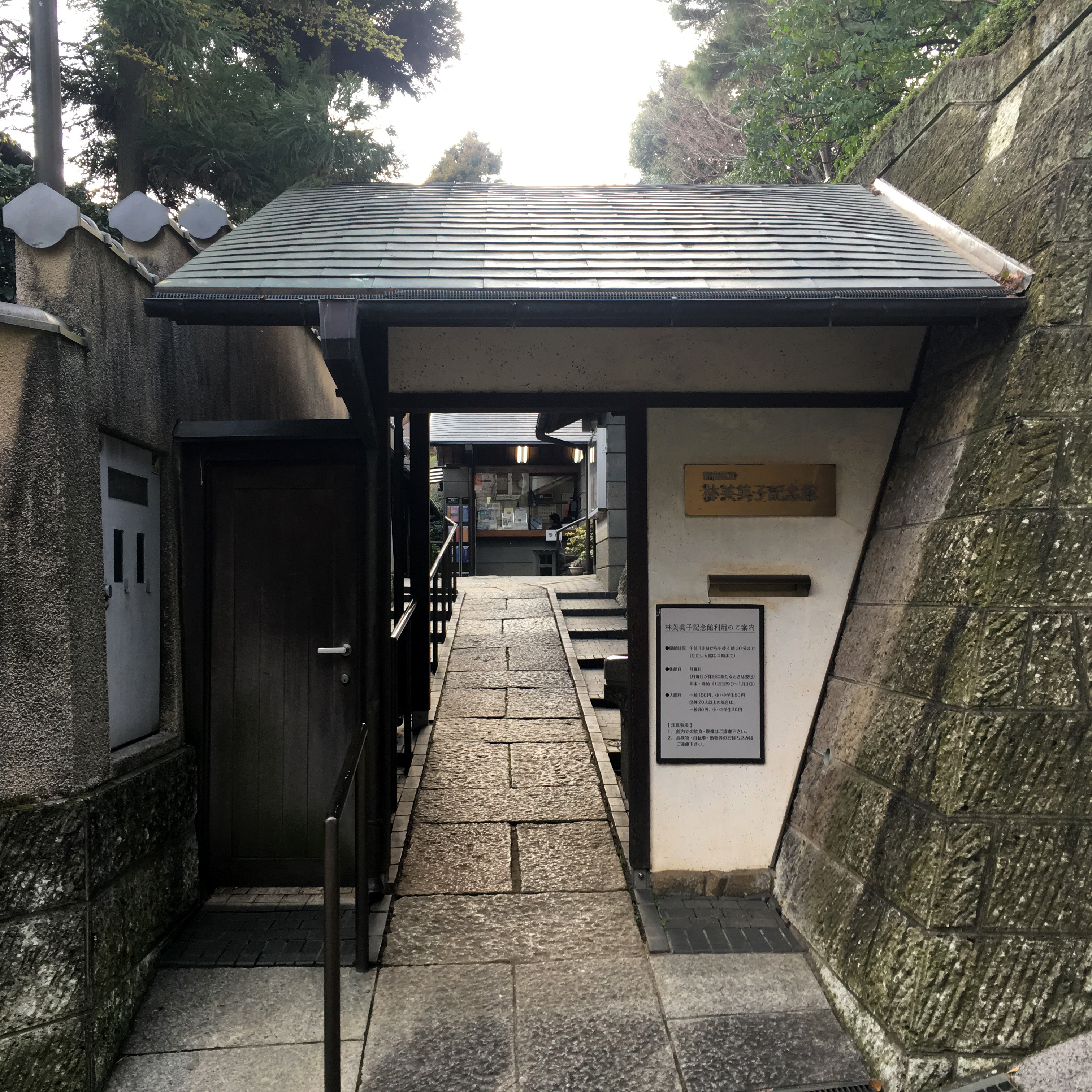 Entrance of Hayashi Fumiko Memorial Hall (Tokyo, Japan)